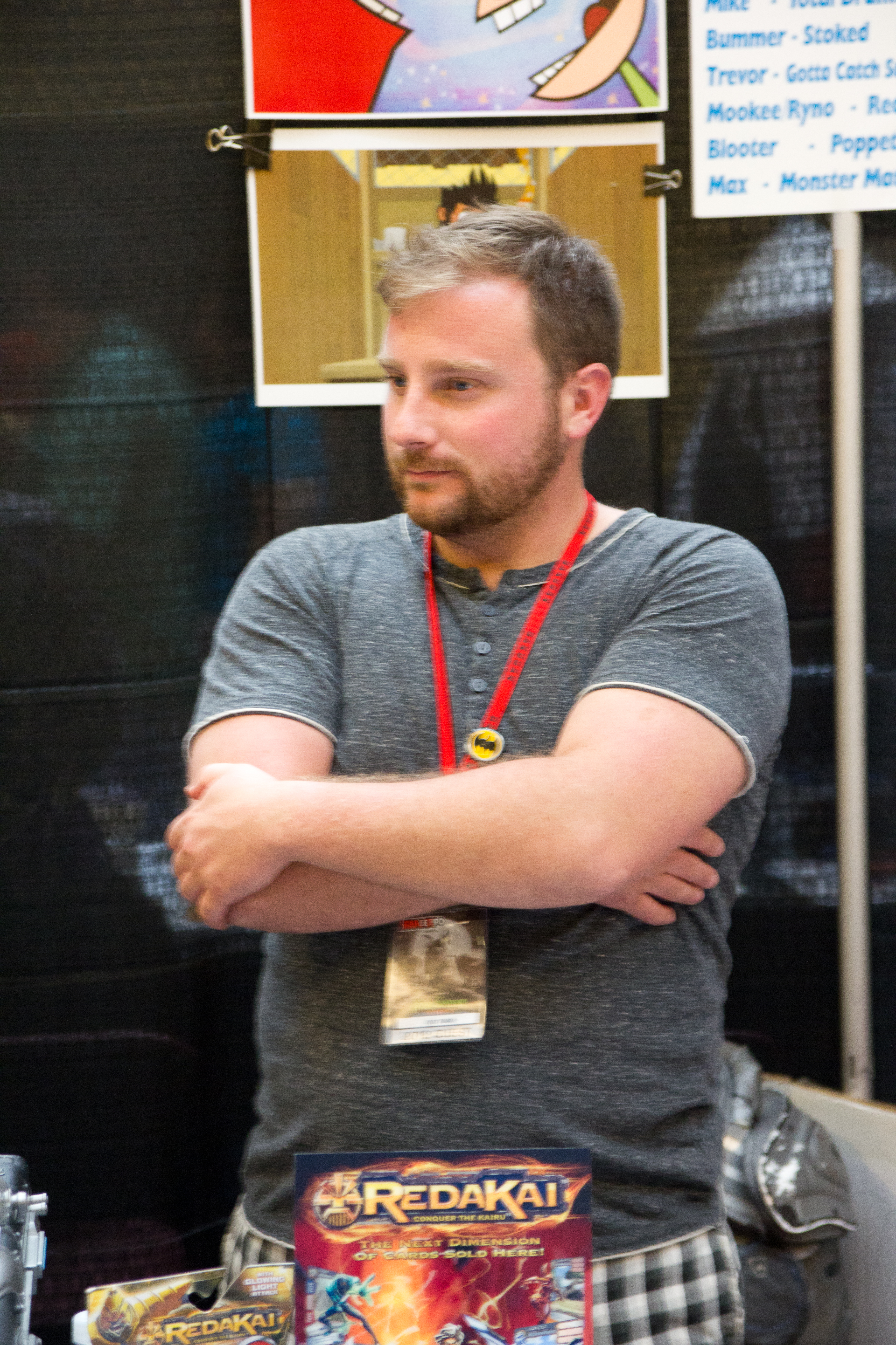 Actor Cory Doran at the 2012 FanExpo Canada